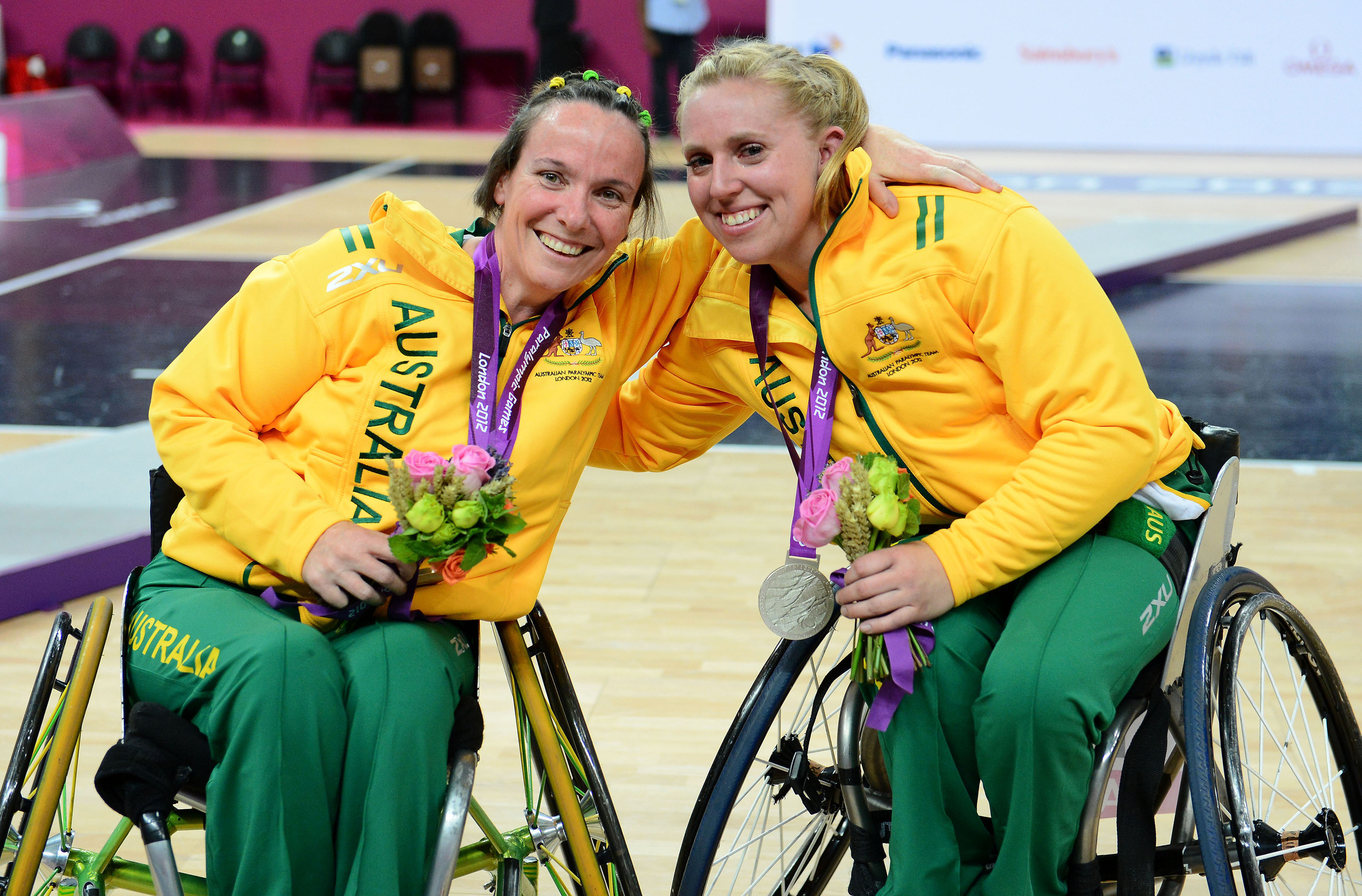 Photograph of Australian Paralympic team members Amanda Carter & Shelley Chaplin at the 2012 Summer Paralympic Games in London